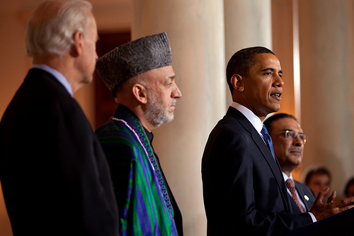 President Barack Obama with Afghanistan President Hamid Karzai, Pakistan President Asif Ali Zardari and Vice President Joe Biden during a statement in the Grand Foyer of the White House following a trilateral meeting.